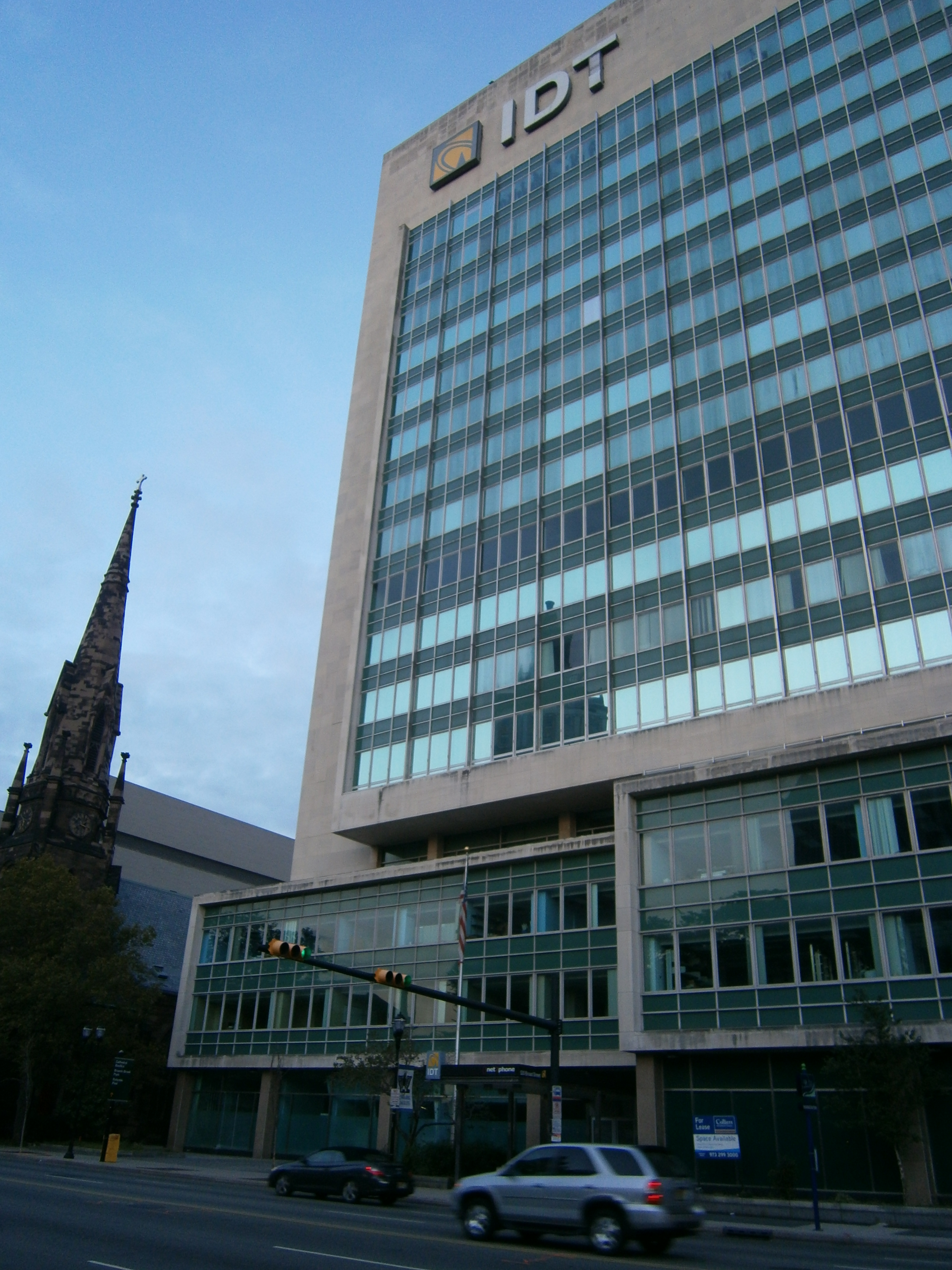 Mutual Benefit Life Bldg and North Reformed Church on Broad St & Washington Park-Newark